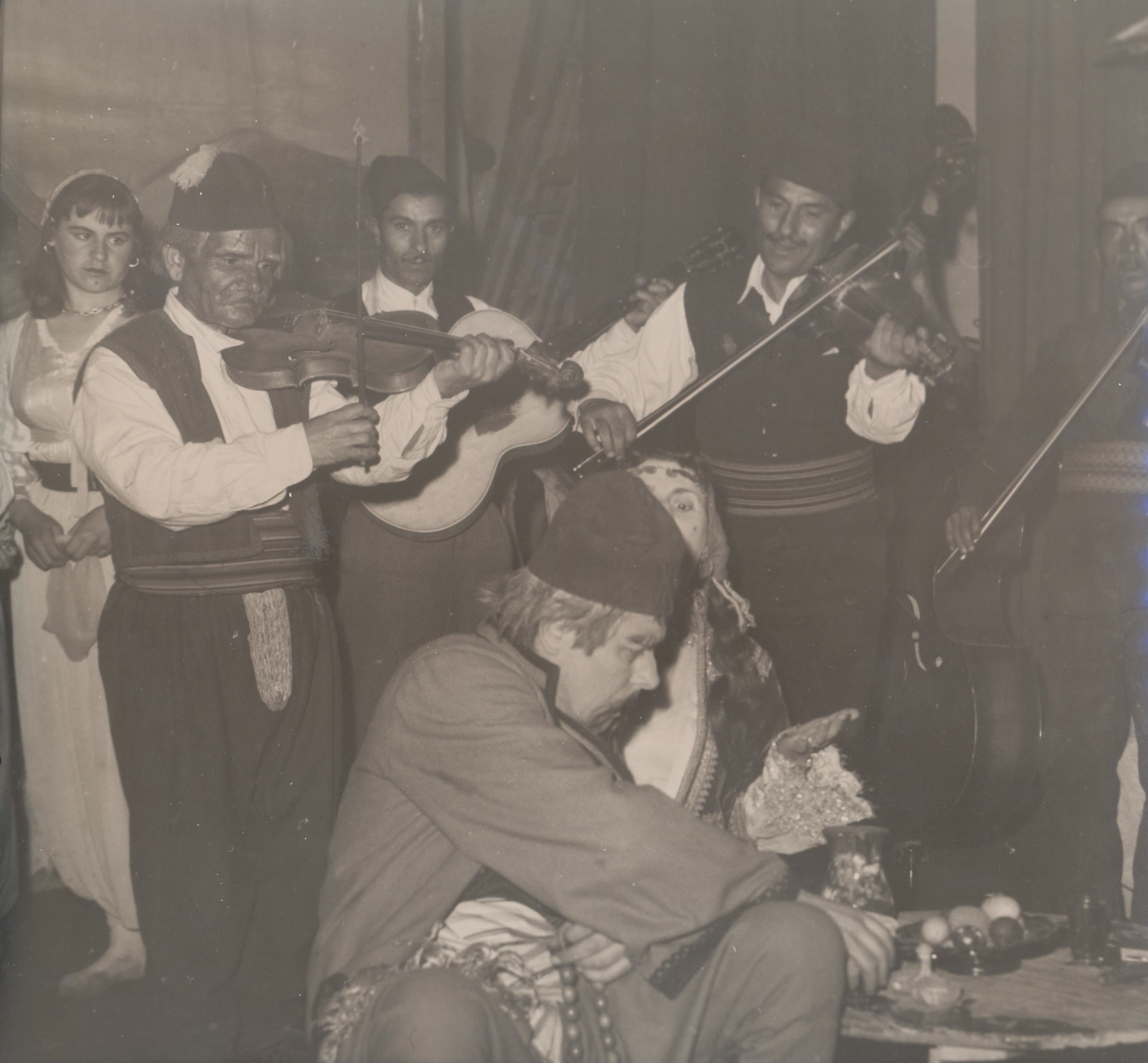 The performance of Kostana in Pirot 1960.